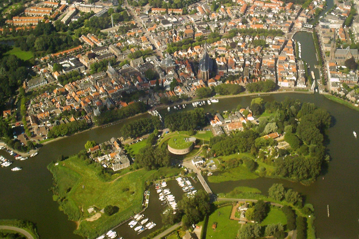 Weesp, North Holland. In the centre fortress Ossenmarkt